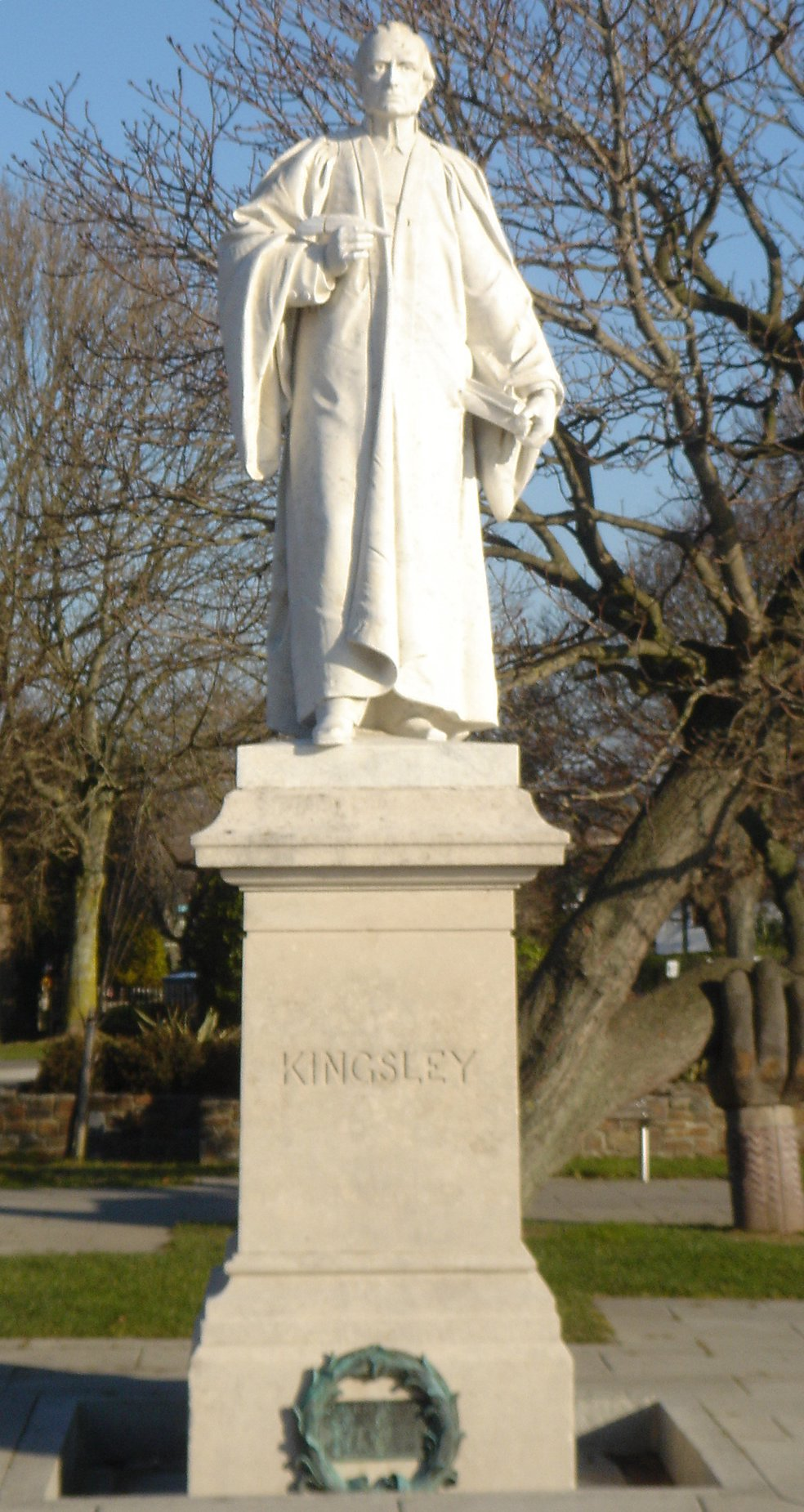 A statue of the author Charles Kingsley at Bideford, Devon, United Kingdom.